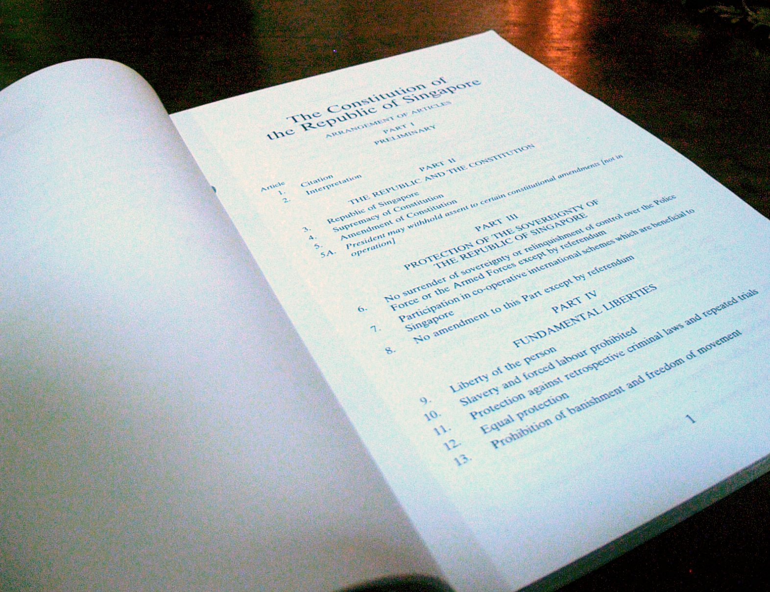 First contents page of the 1999 Reprint of the Constitution of Singapore.